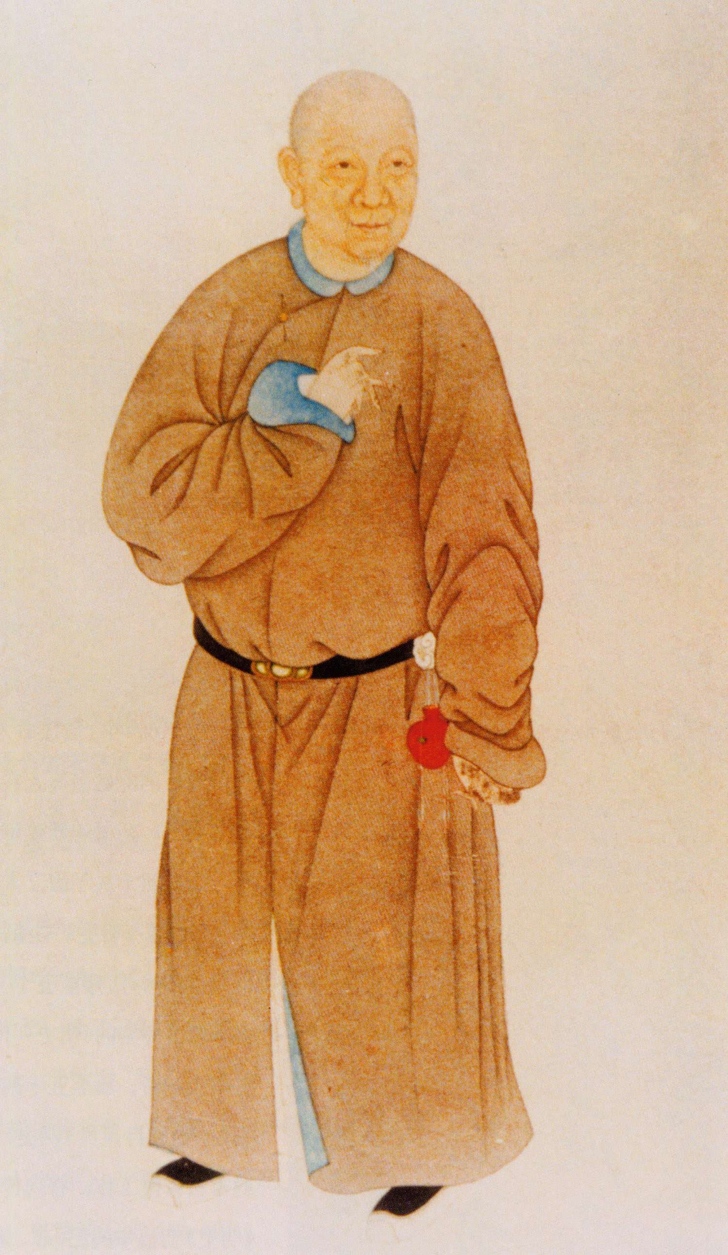 Xu Qianxue